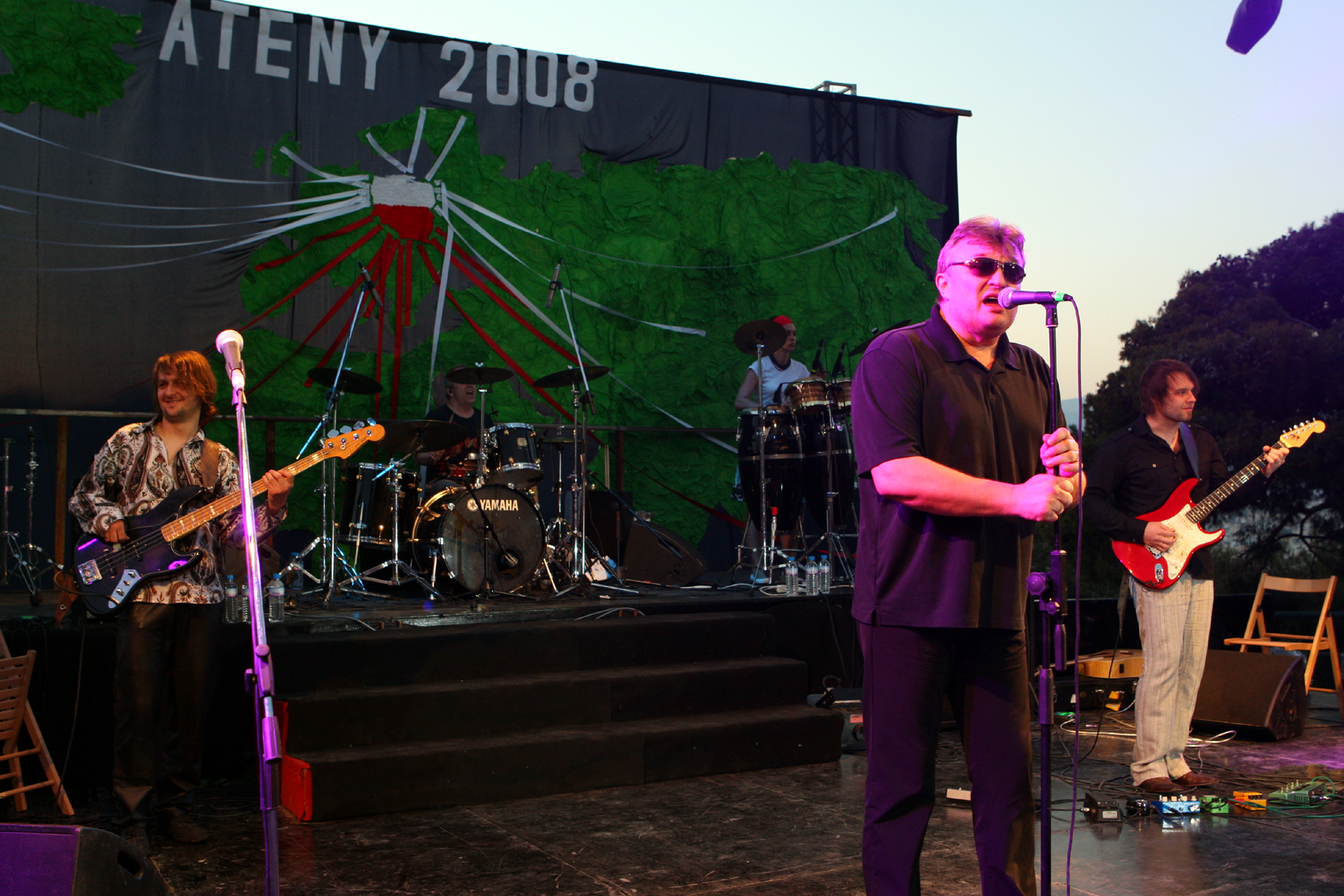 "Budka Sufflera" concert during Polonia and Poles Abroad Day in Athens